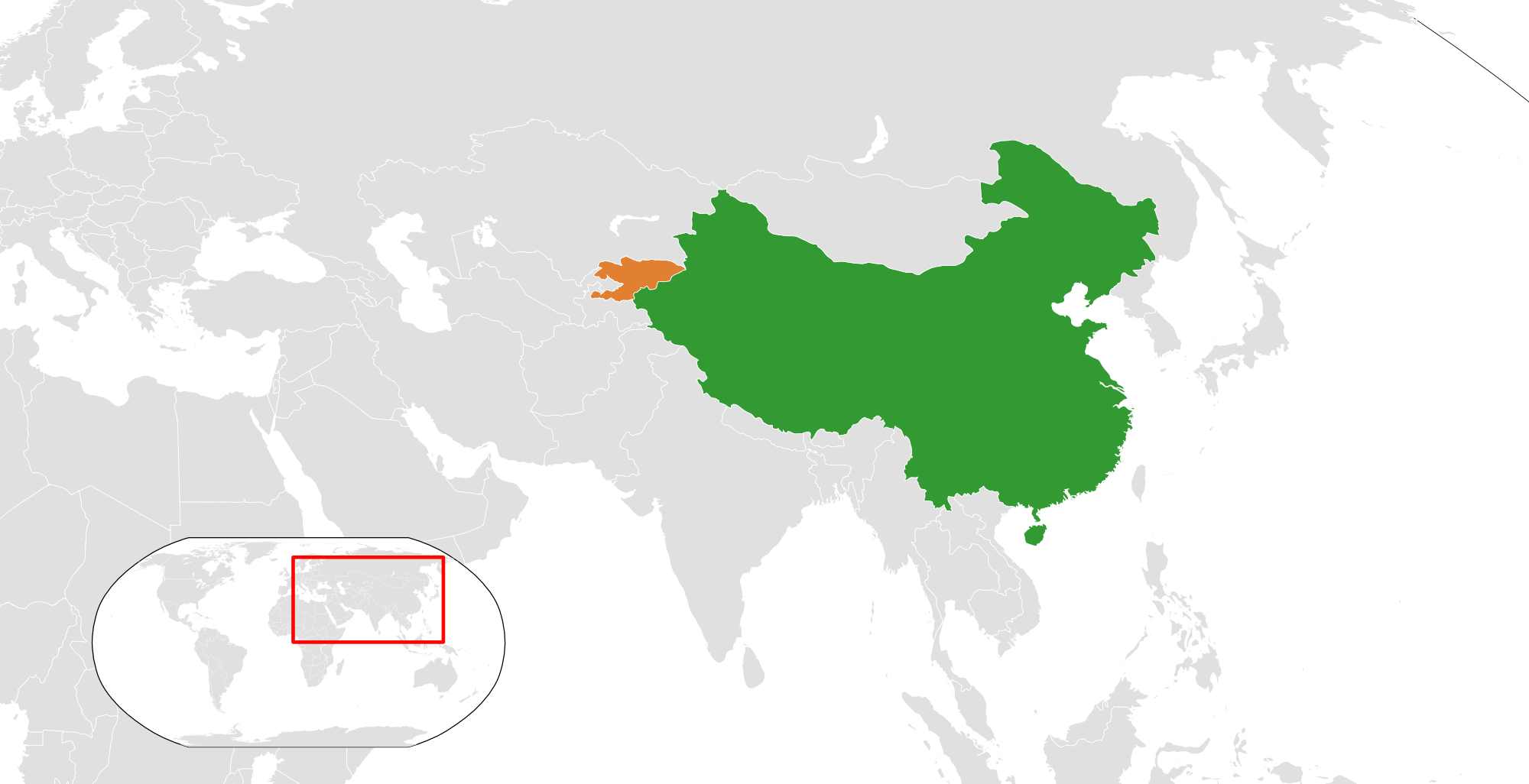 Locator map showing China and Kyrgyzstan